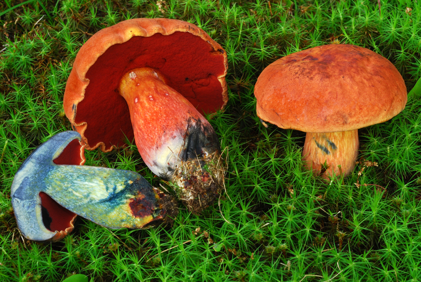 Boletus subvelutipes Peck Location: Gilson Pond, Jaffrey, Cheshire County, New Hampshire, USA For more information about this, see the observation page at Mushroom Observer.